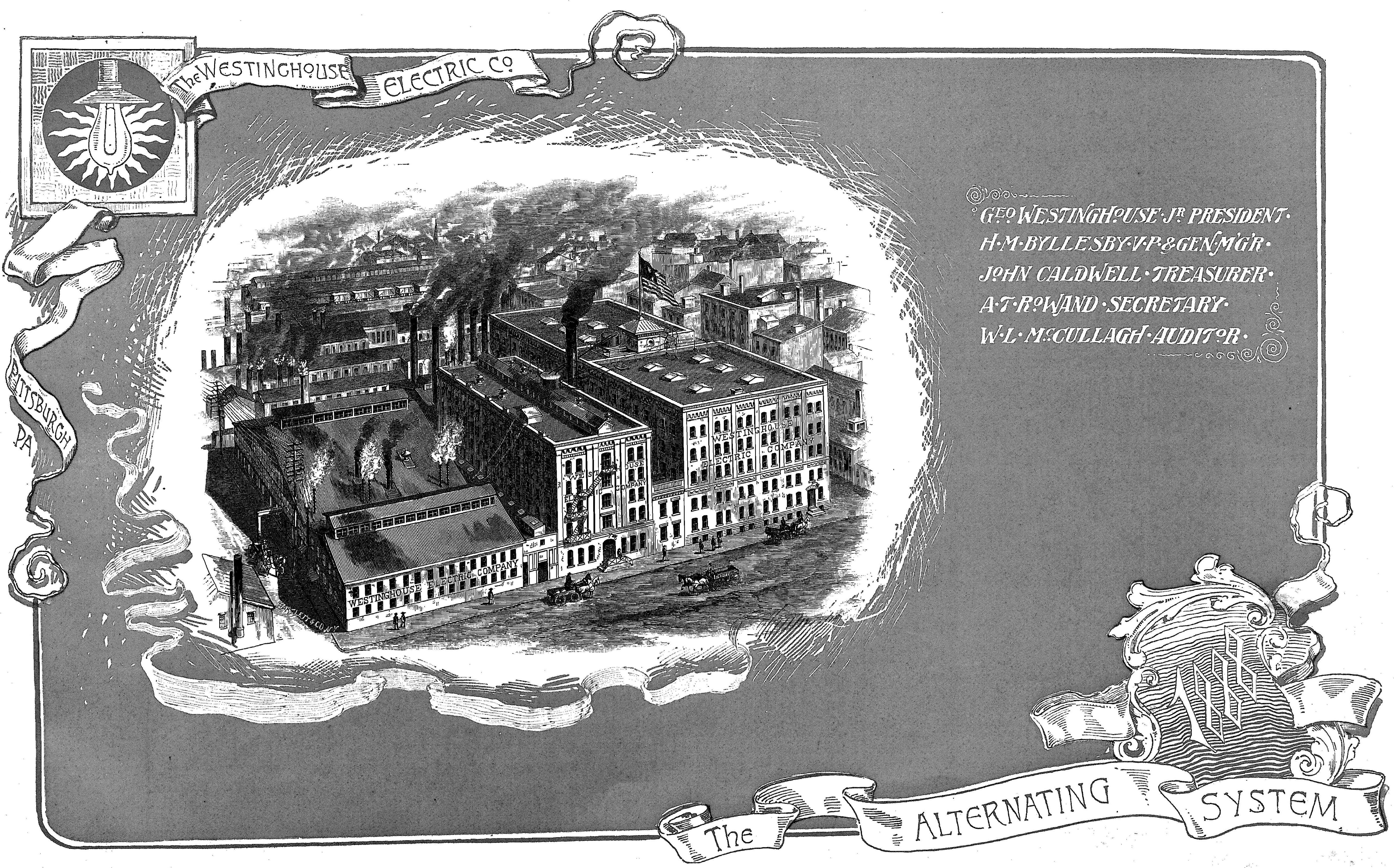 Book engraving of Westinghouse Electric Company in Pittsburgh, Pennsylvania USA.